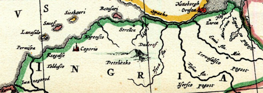 Map of Ingria, cropped from Andreas Bureus' map of Finland, 1626